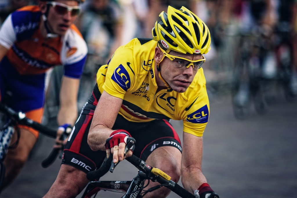 Evans wearing the yellow jersey during a Criterium in Surhuisterveen after the 2011 Tour de France.